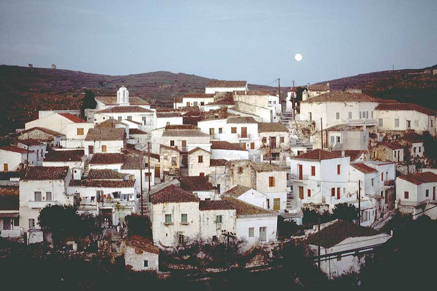 Photograph of the village of Driopida, Kythnos by Kathleen A. Saccopoulos